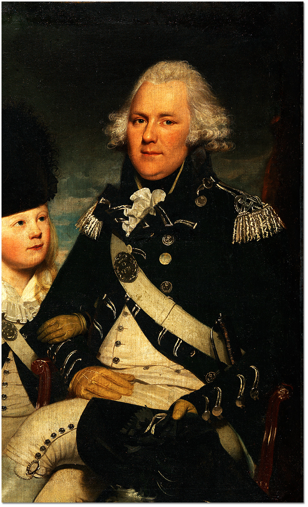 William Jarvis and his son Samuel, Oil painting on Canvas